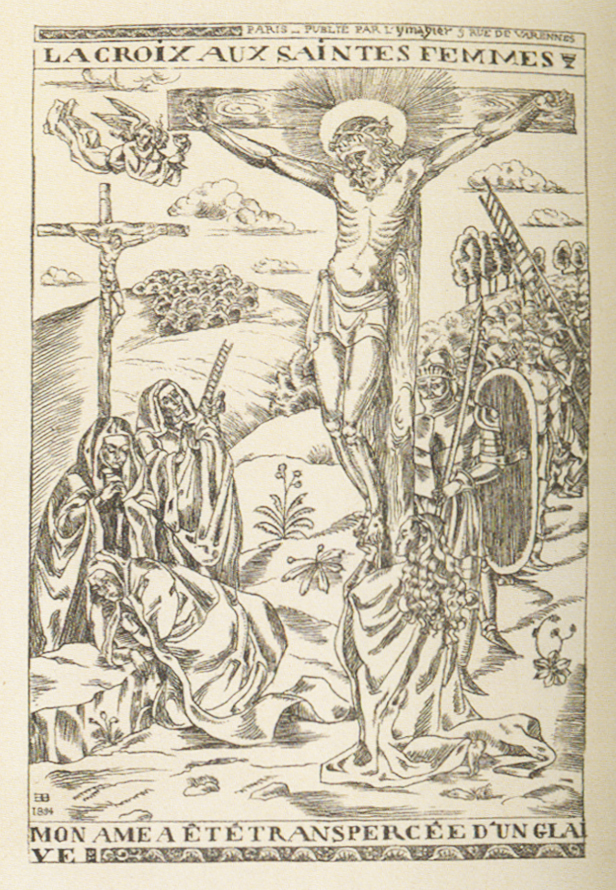 Emile Bernard Cross to the Holy Women lithograph, 1894 La Croix aux Saintes Femmes lithographie, 1894